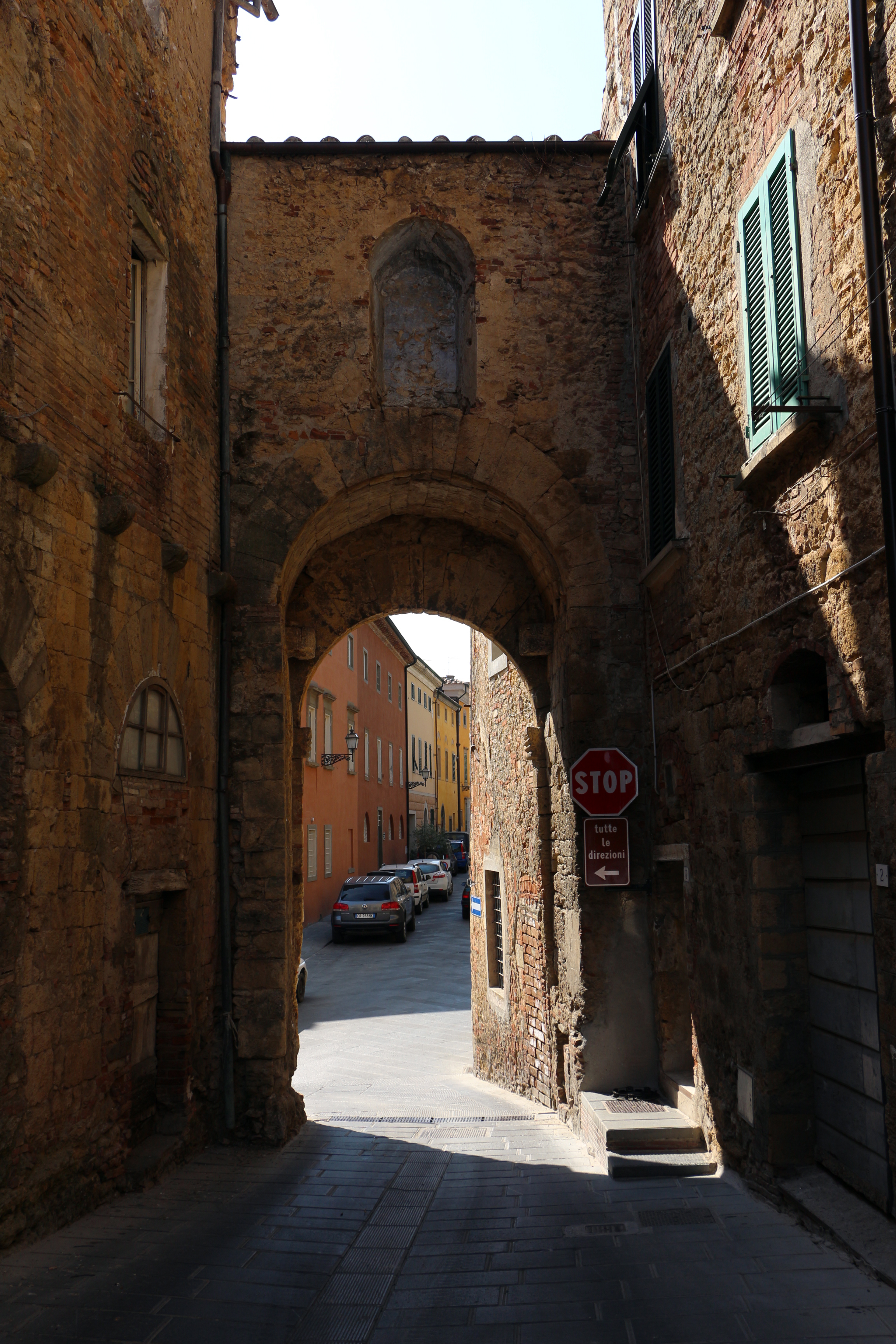 Pomarance